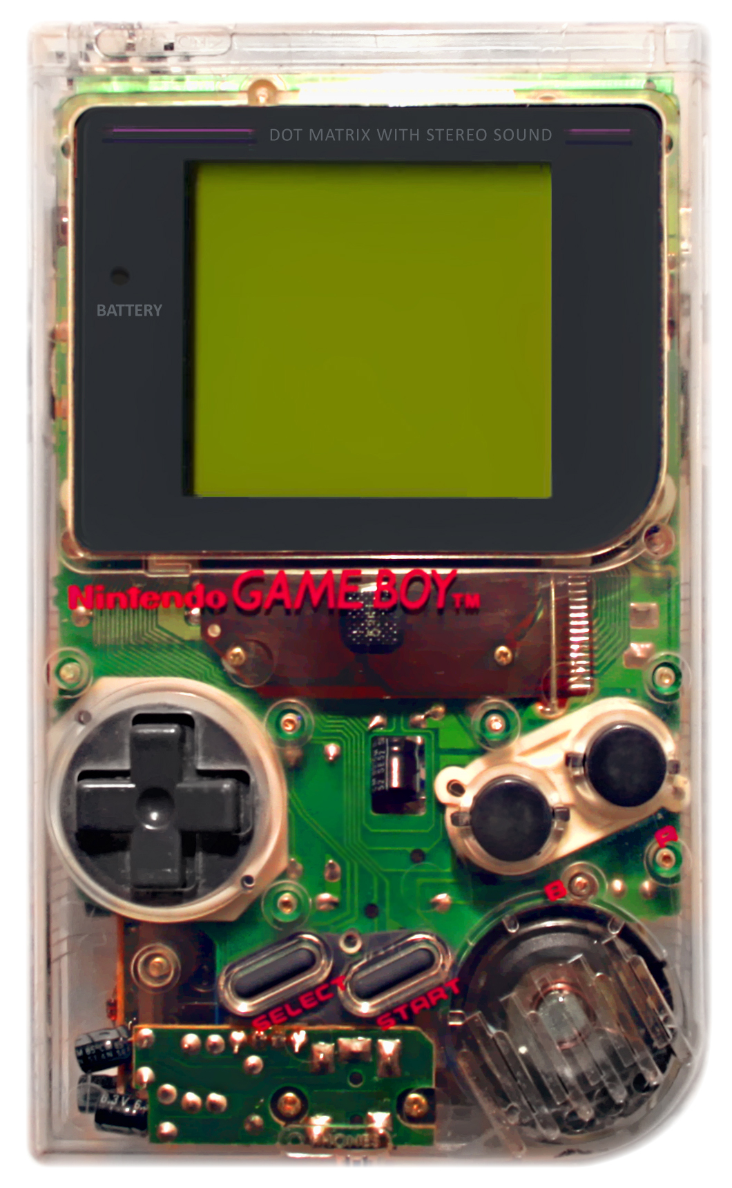 A transparent model of the Game Boy.